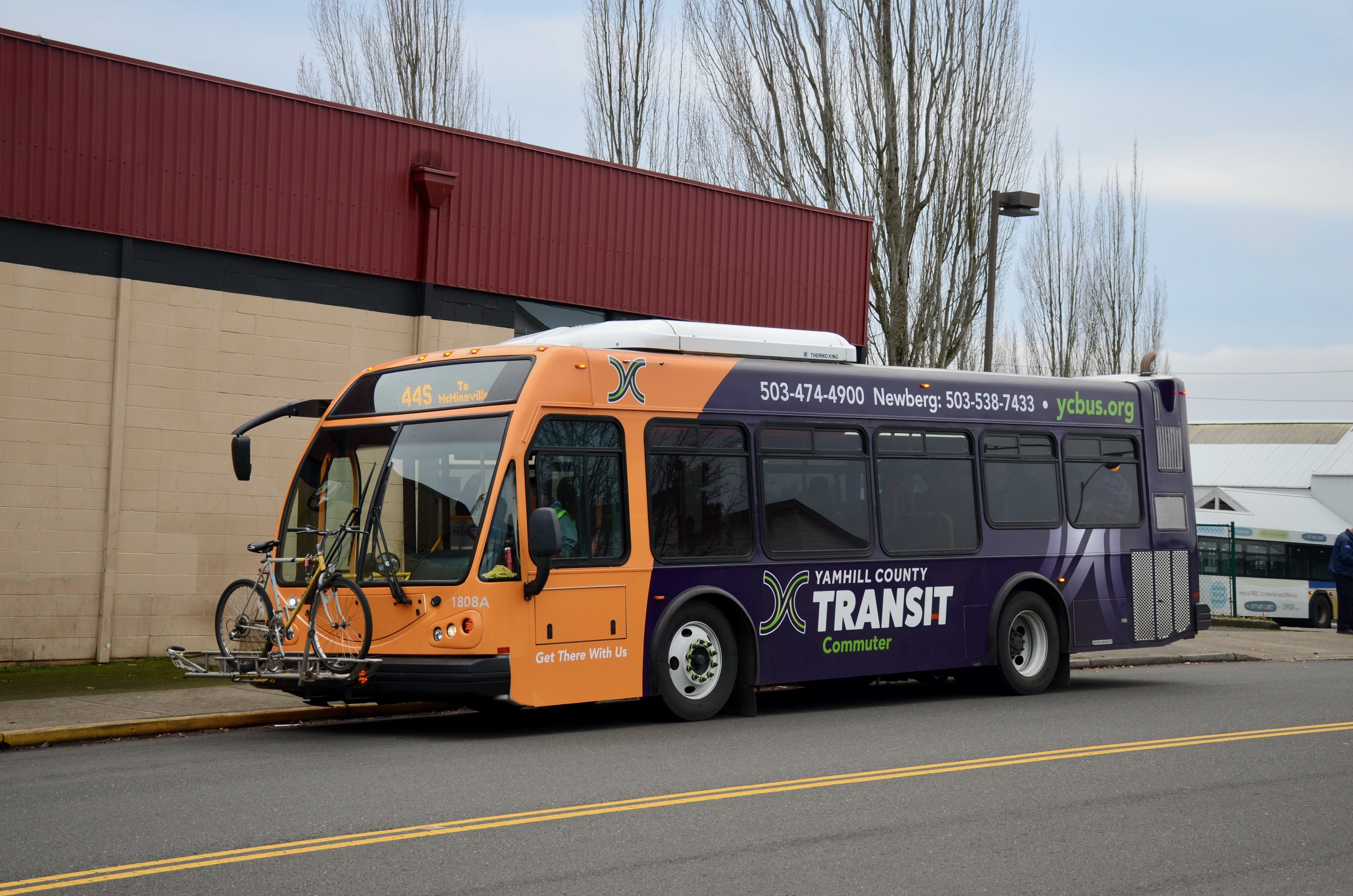 Yamhill County Transit bus 1808, a 2018 ElDorado National "E-Z Rider II BRT" mid-size bus, laying over on Commercial Street at TriMet's Tigard Transit Center, in Tigard, Oregon. It is in service on YCT route 44 between Tigard and McMinnville. The "S" showing on its destination sign indicates a southbound trip, and is not part of the route number (and the same vehicle was displaying "44N" when it arrived, as it was ending a northbound trip).